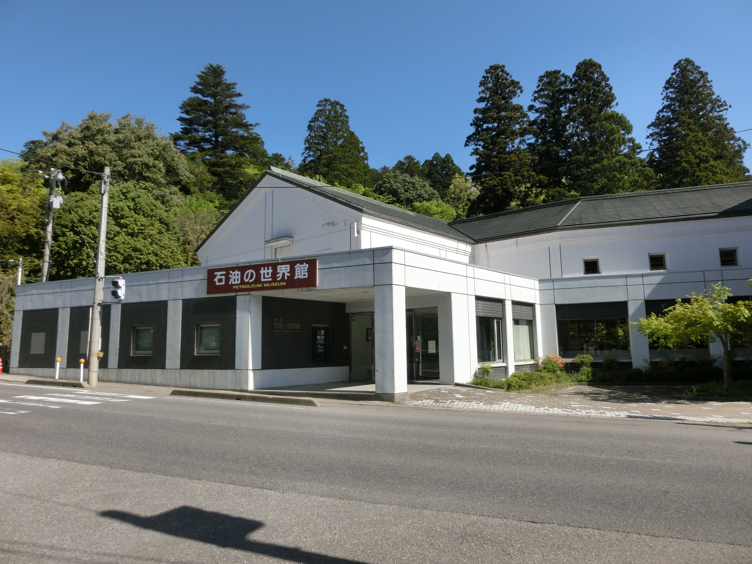 Niitsu Petroleum Museum